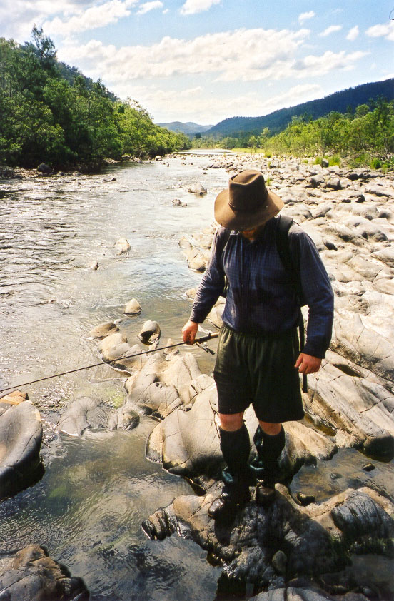 Eastern freshwater cod habitat. Eastern Freshwater Cod often share such habitats with Australian Bass. January 2000. Codman 04:41, 24 September 2005 (UTC)